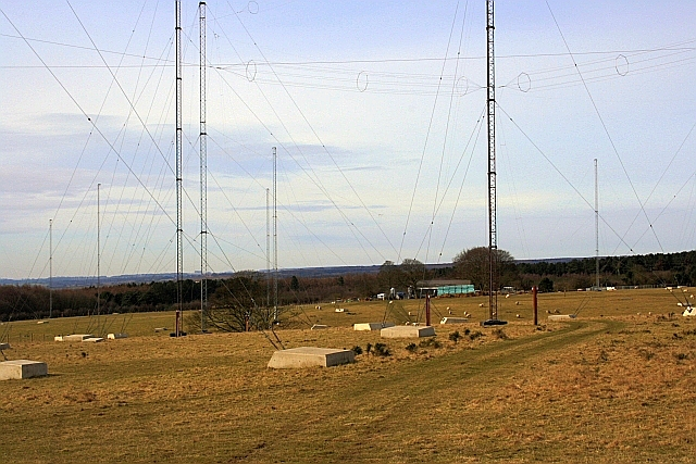 Aerials, Irton Moor Part of the wireless station known as 'GCHQ Scarborough'. Apparently it is a Composite Signals Organisation (CSO) station. Box Hill Farm in the distance (TA0086).